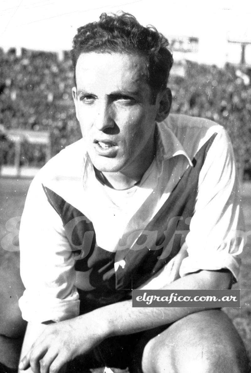 Osvaldo Zubeldía during his first years as player.